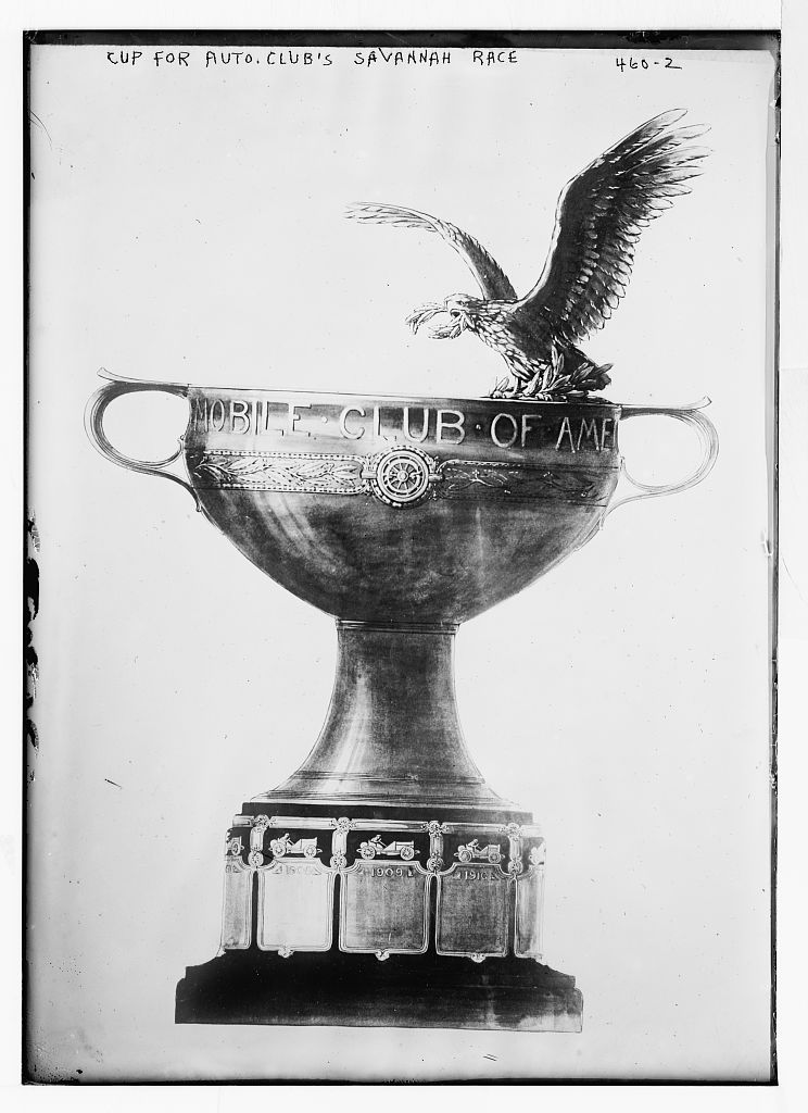 American Grand Prize trophy, when the race held was in Savannah, Georgia (1908, 1910 and 1911)